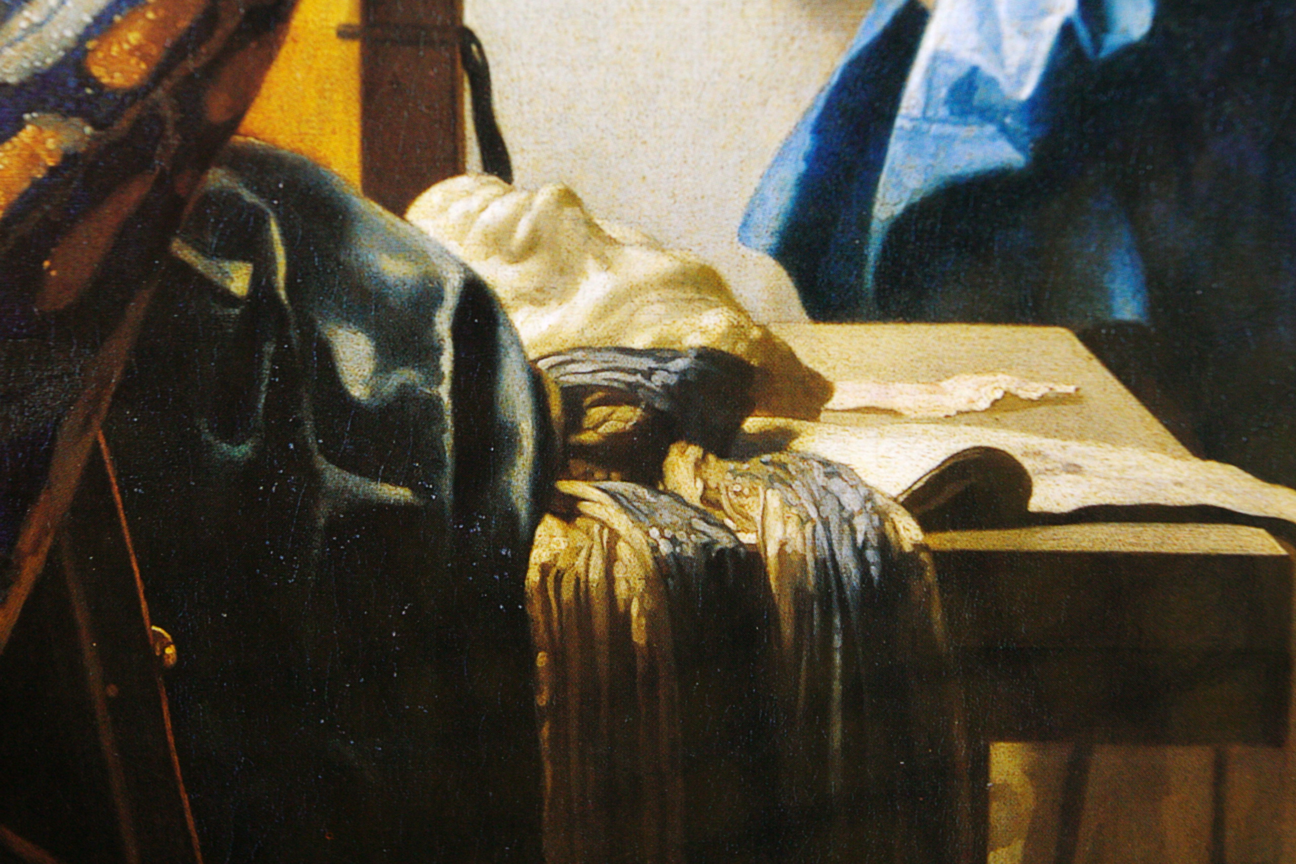 A theater mask